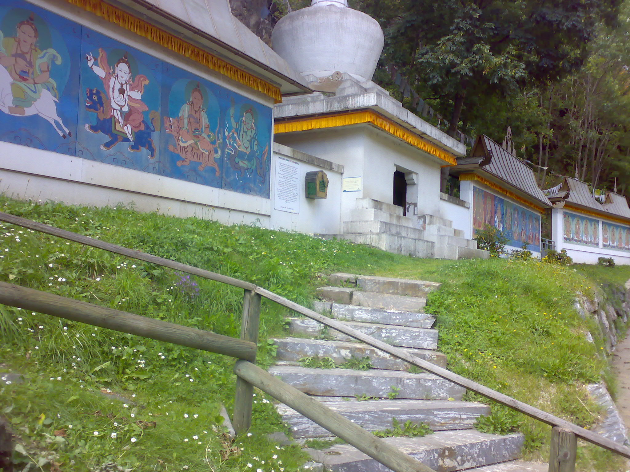 Lingkor Pfad gegenüber Heinrich Harrer Museum bei der Eingang, Lingkor path at the other side of the road of the Heinrich Harrer Museum at the entrance